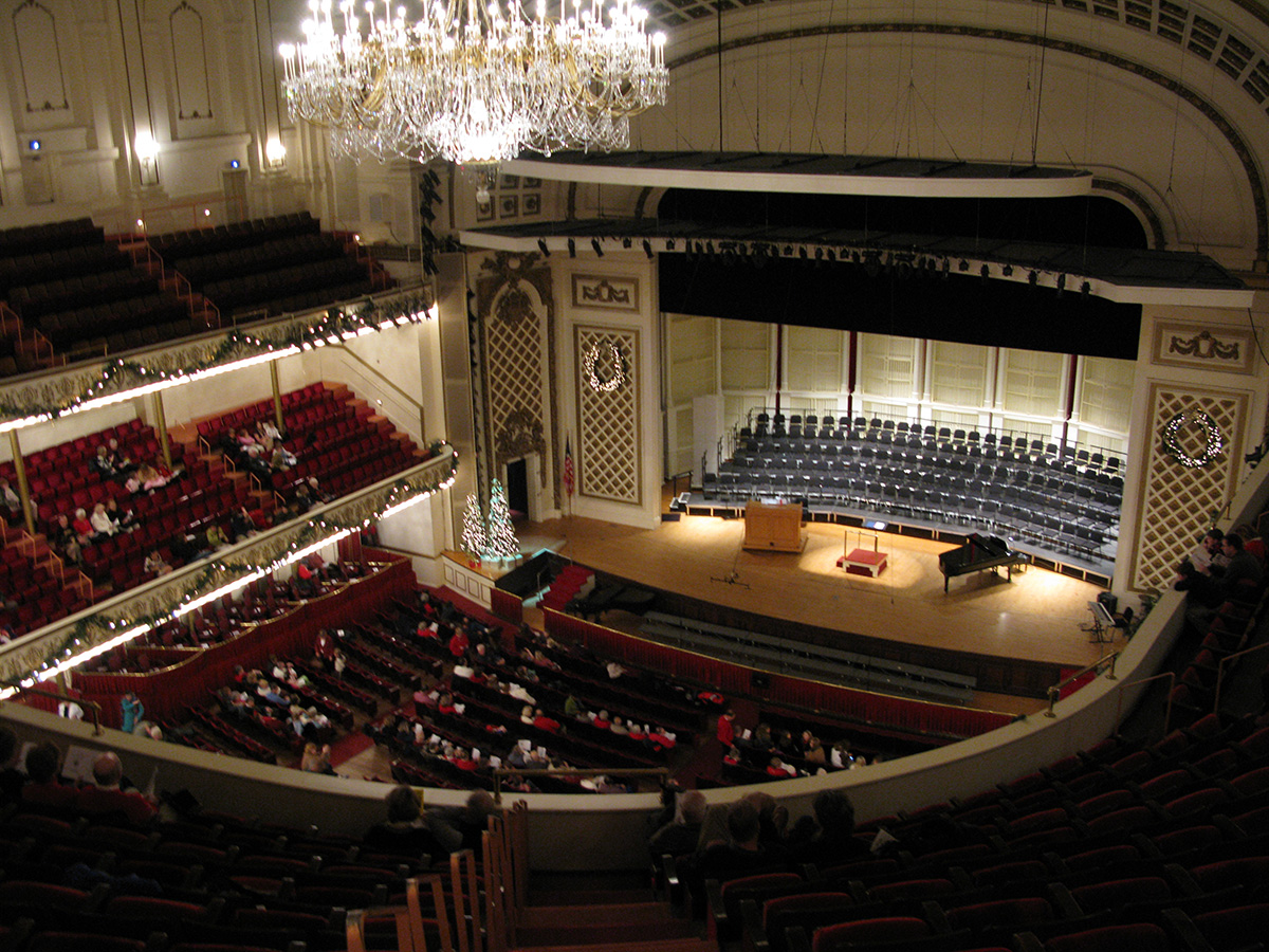 A view of the stage in Springer Auditorium, the main stage of Music Hall in Cincinnati, Ohio.